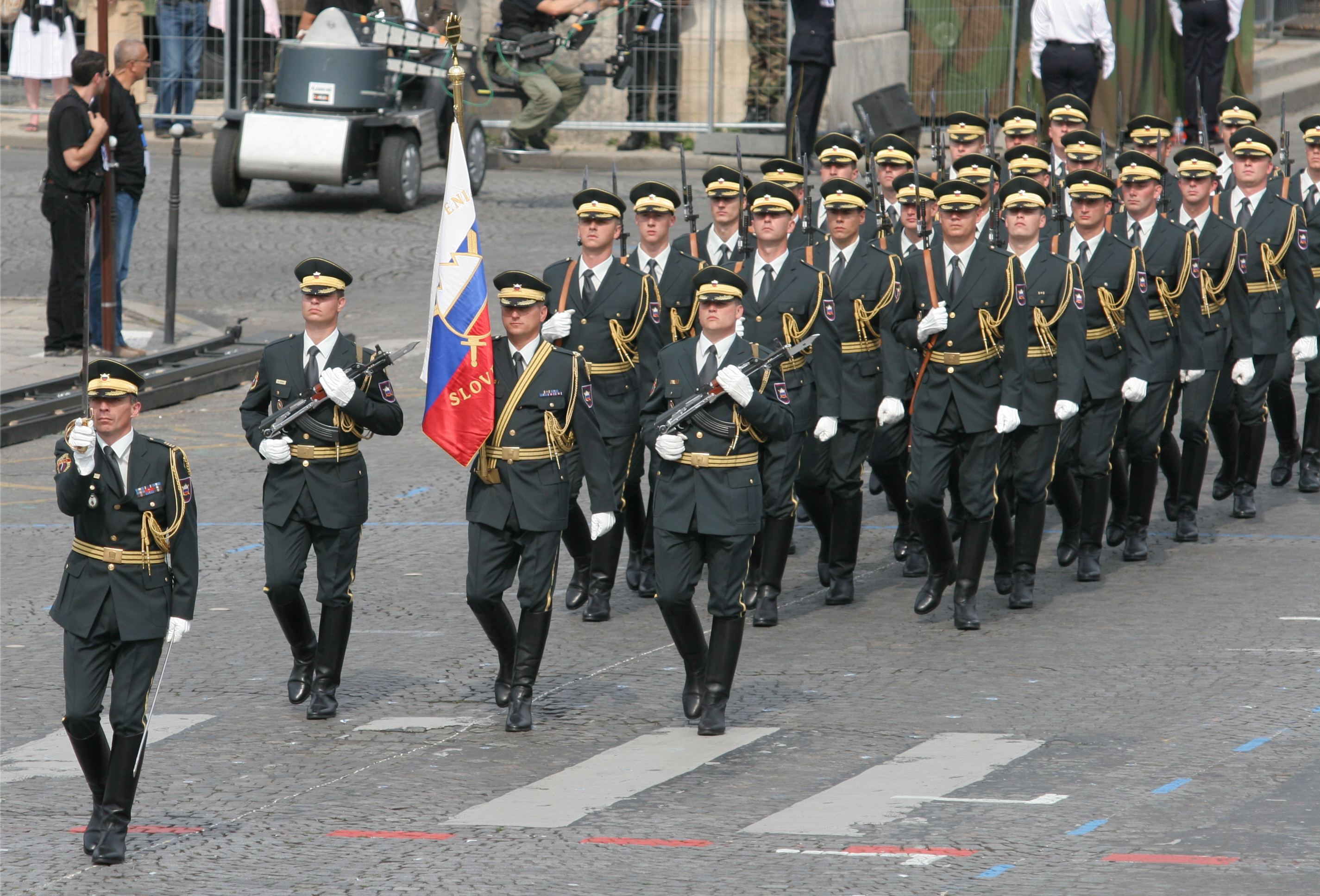 A detachment of the Slovenian Army the marching in the 2007 Bastille Day Military Parade on the Avenue des Champs Elysées in Paris